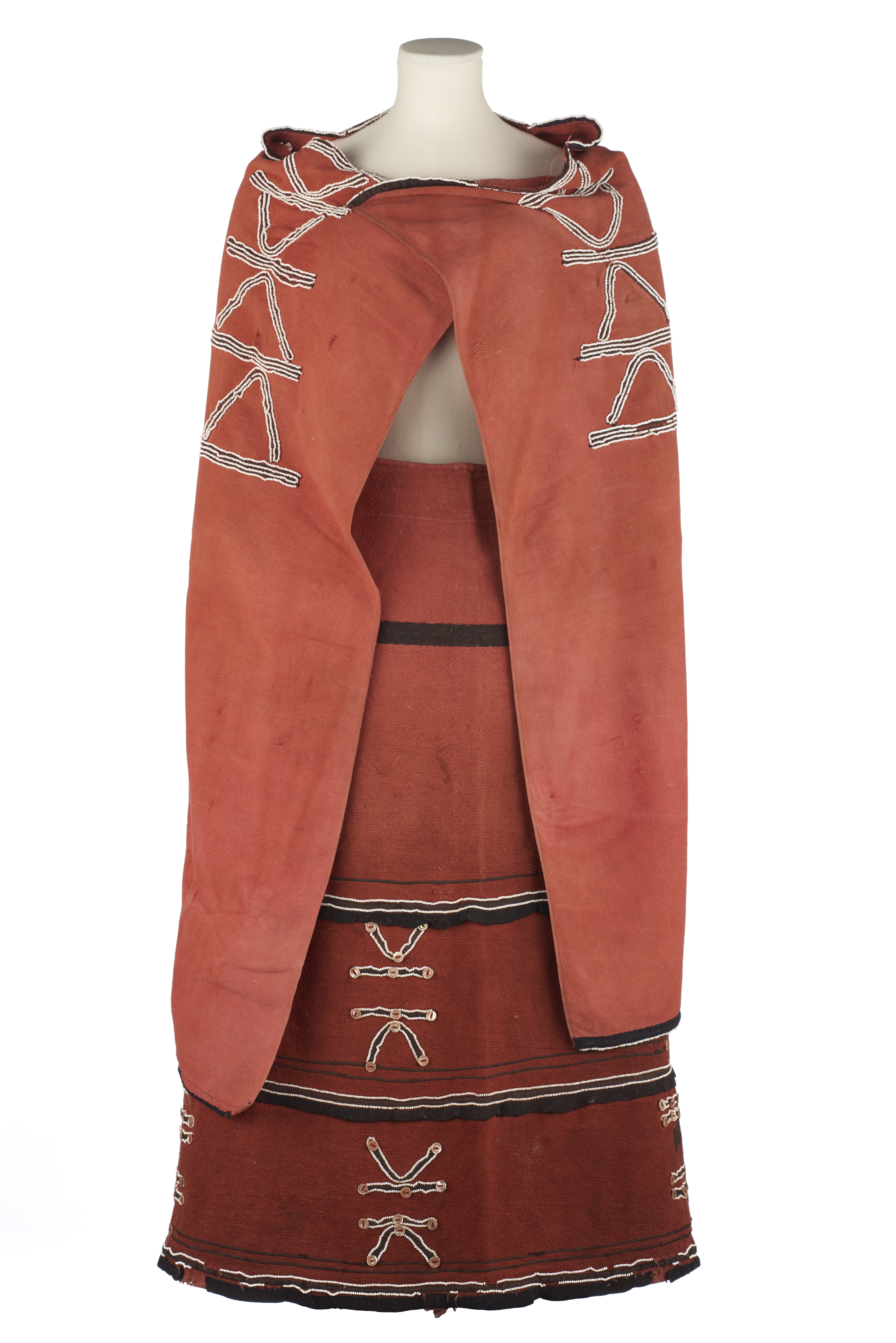 Xhosa women's outfit, dates from early-mid twentieth century. Part of Brighton Museum's permanent collection, acquired as part of the 'Fashioning Africa' project 2015-2018.